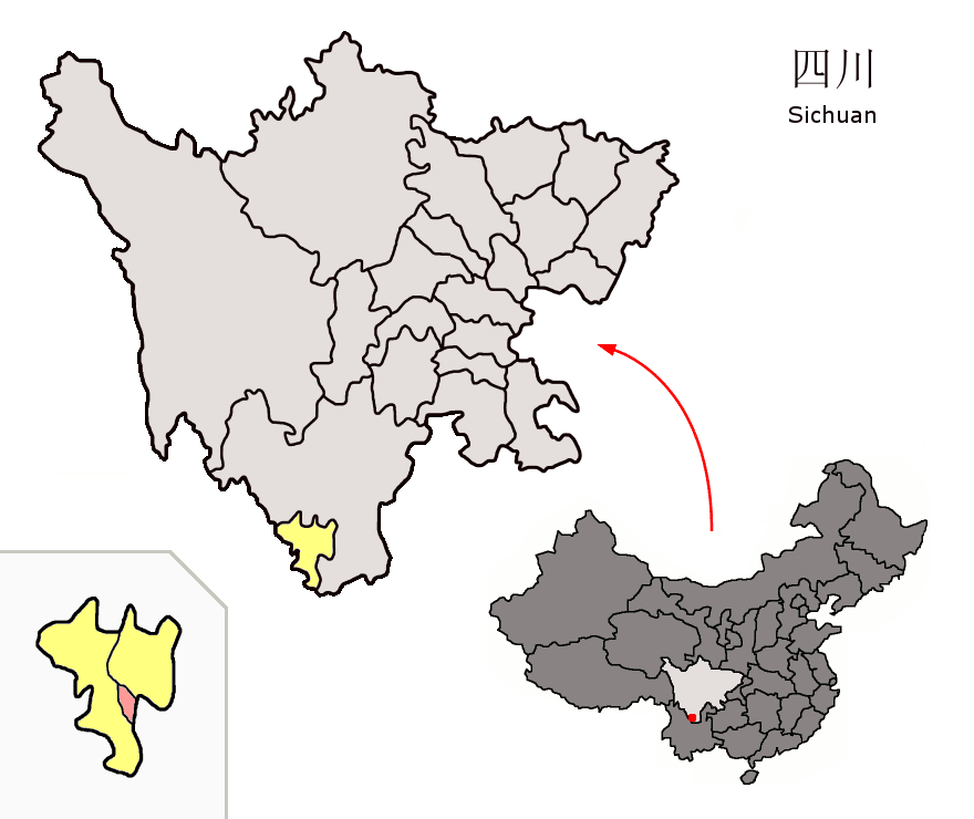 Location of Yanbian County (pink) and Panzhihua Prefecture (yellow) within Sichuan province of China Map drawn in september 2007 using various sources, mainly : Sichuan province administrative regions GIS data: 1:1M, County level, 1990 Sichuan Counties map from